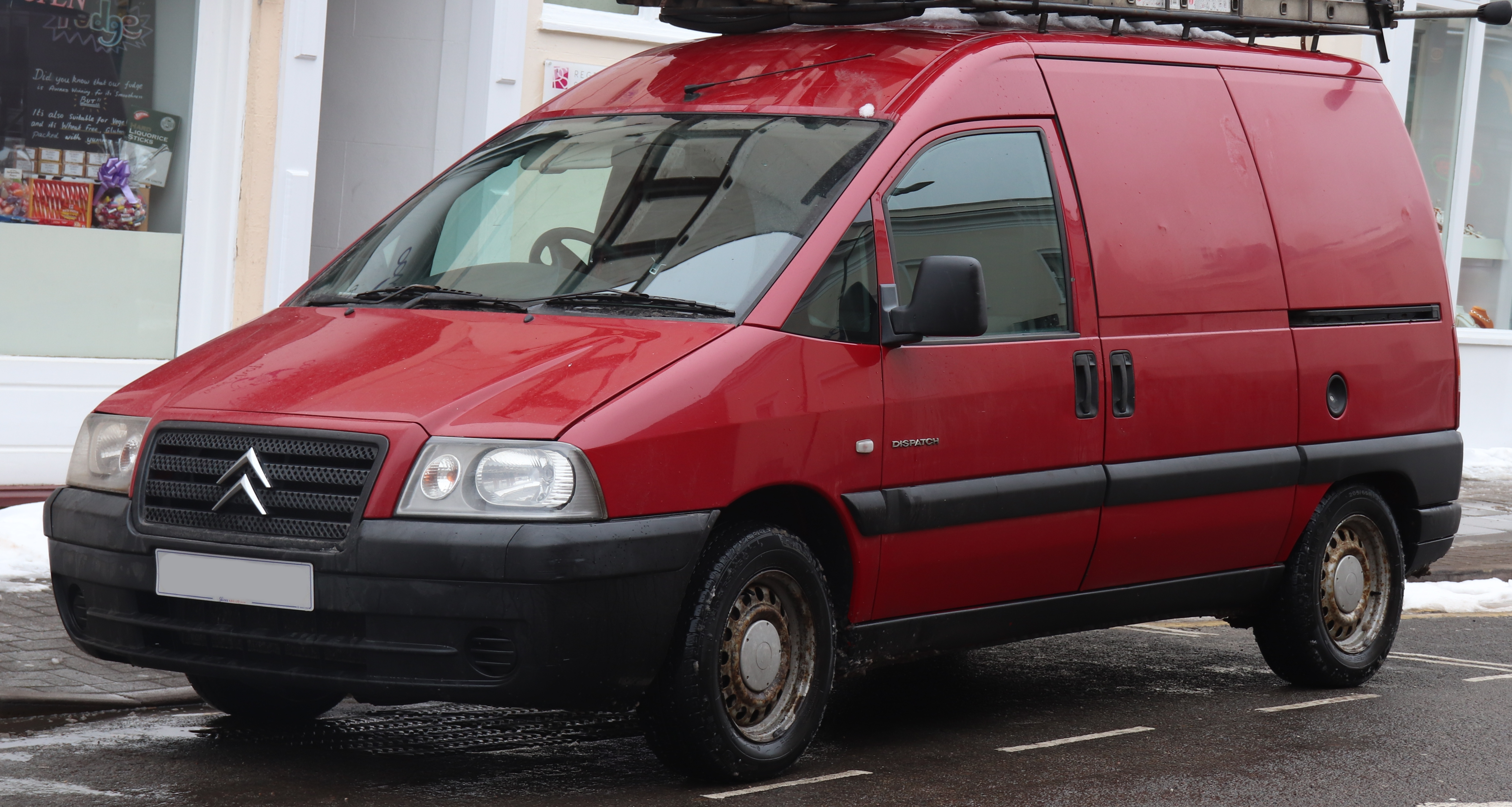 2004 Citroen Dispatch 900 HDi facelift 2.0 Front Taken in Leamington Spa